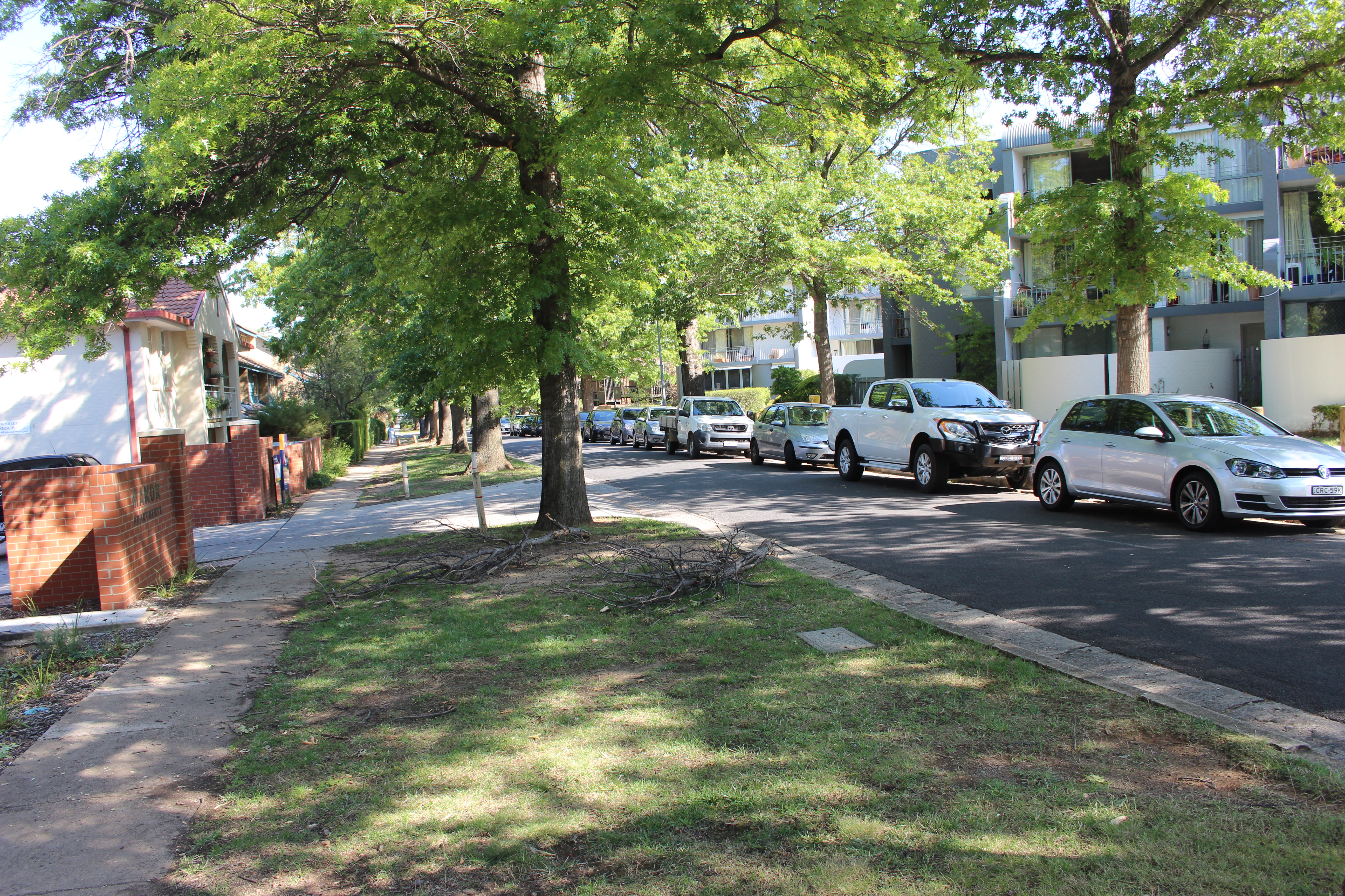 Kingston, Australian Capital Territory